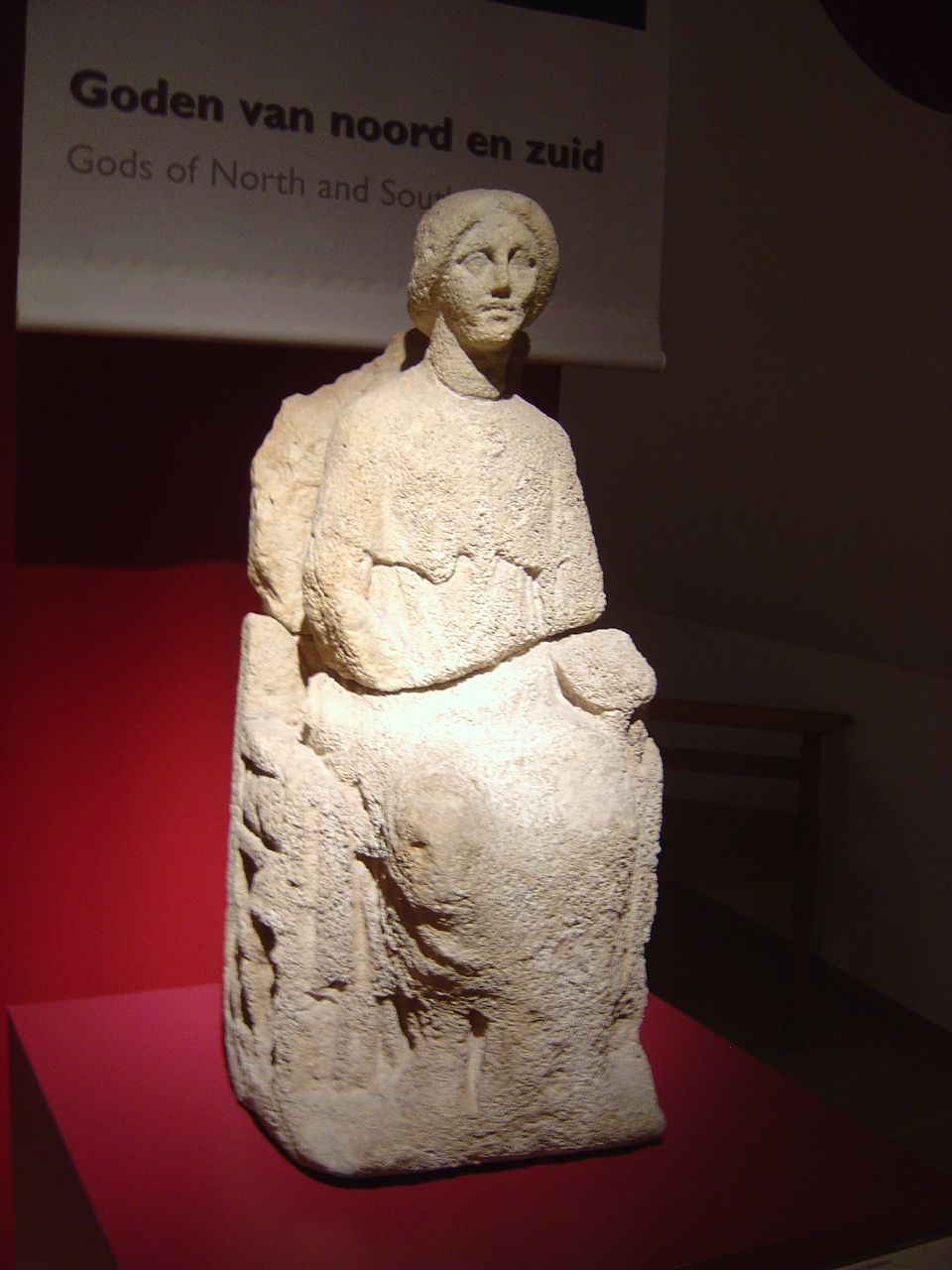 Nehalennia statue limestone Rijksmuseum van Oudheden Leiden